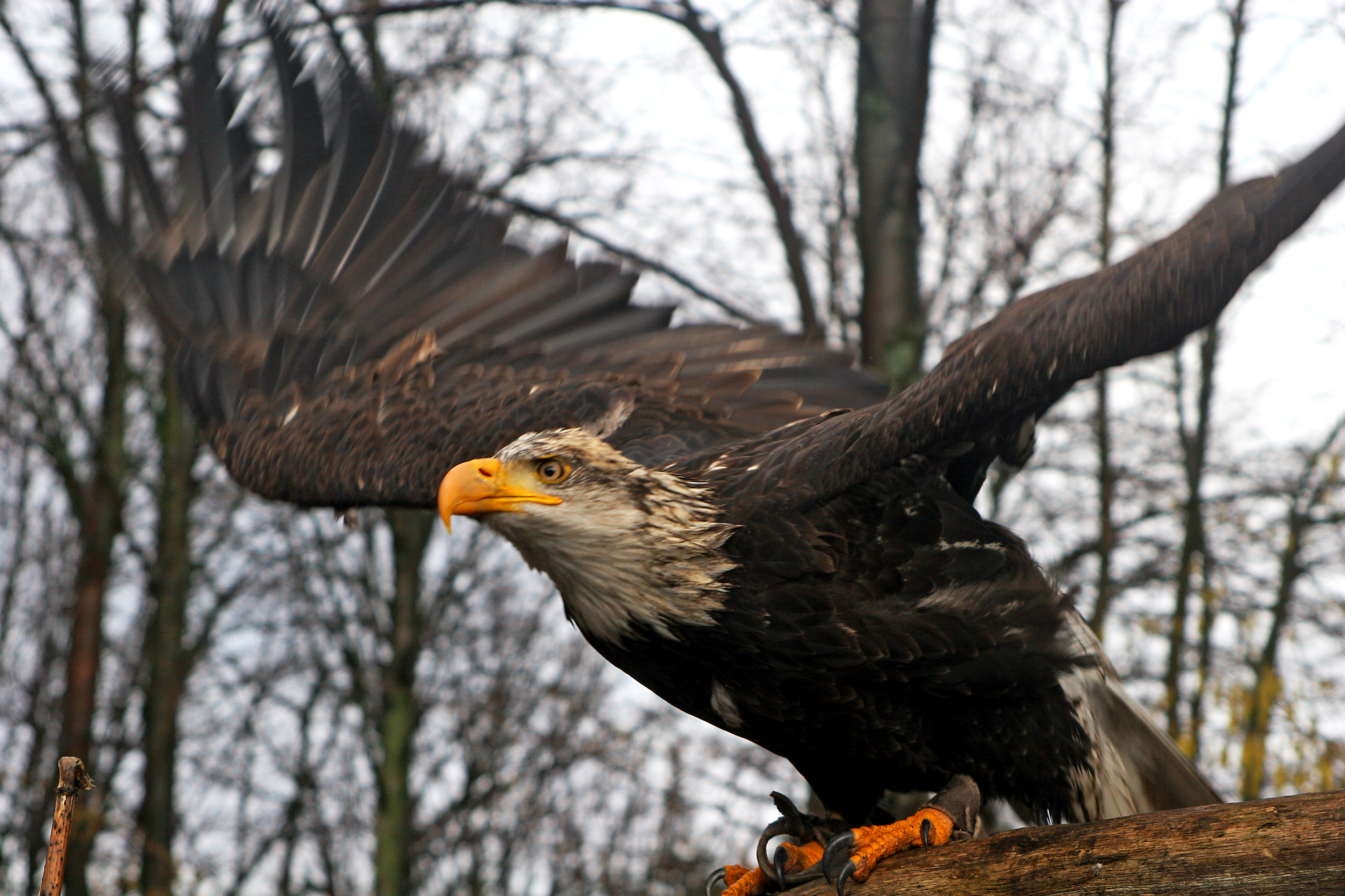 Bald Eagle starting from branch